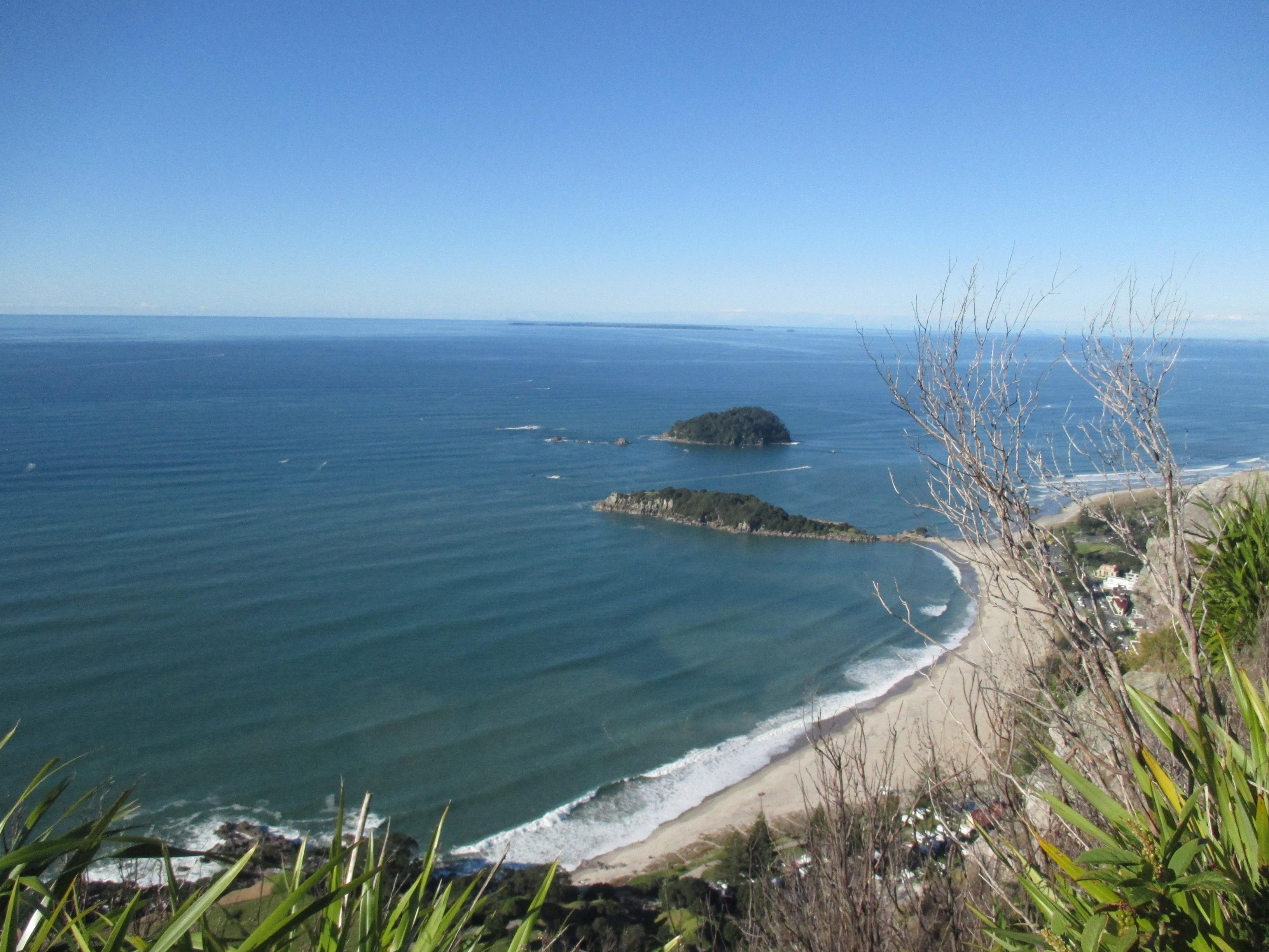 Mount Maunganui Beach 2